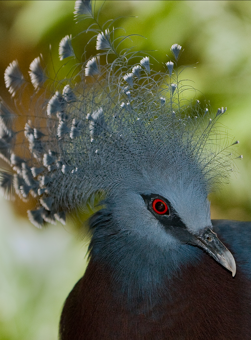 Victoria Crowned Pigeon (Goura victoria). Taken at the Bird Kingdom Aviary, Niagara Falls, Canada.